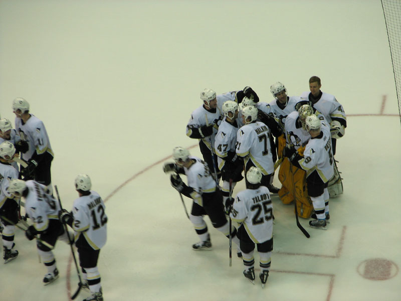 Celebrating their win over the Washington Capitals, USAPittsburgh Penguins Celebrating